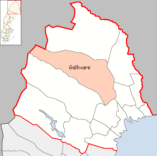 Gällivare Municipality in Norrbotten County Designed by me. Mere outlines are a PD source from